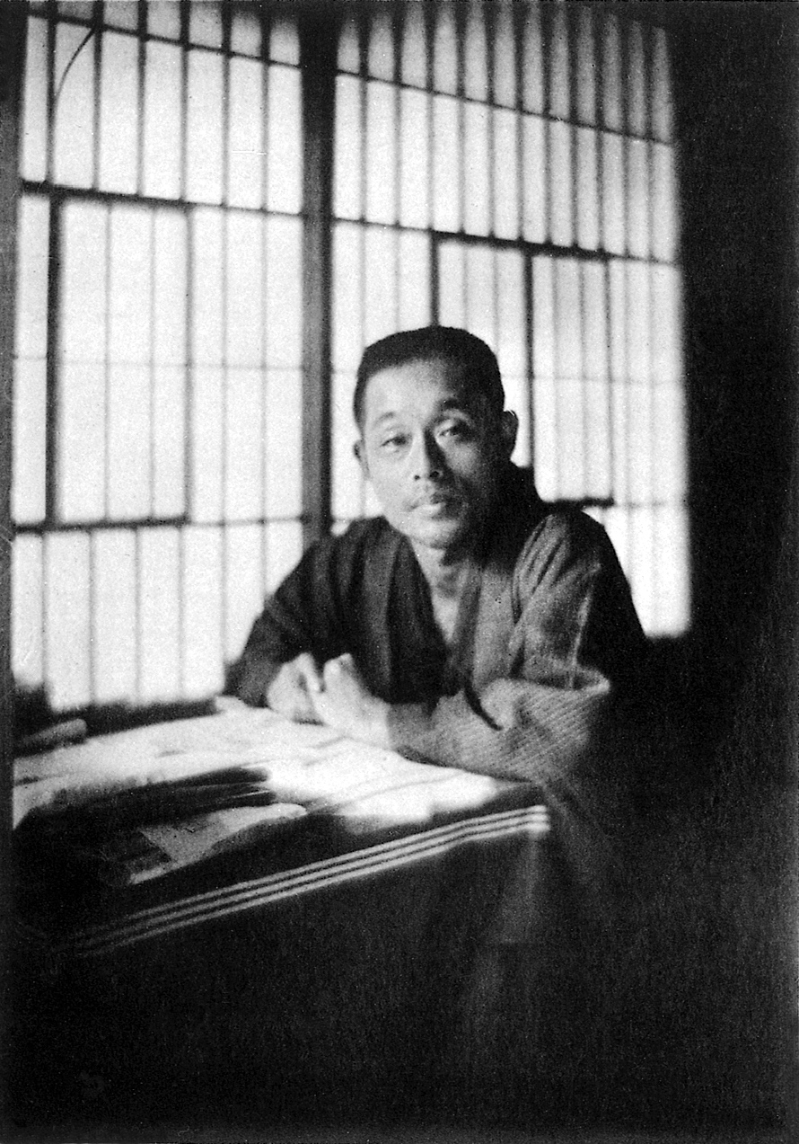 Portrait of Masamune Hakucho (正宗白鳥, 1879 – 1962)